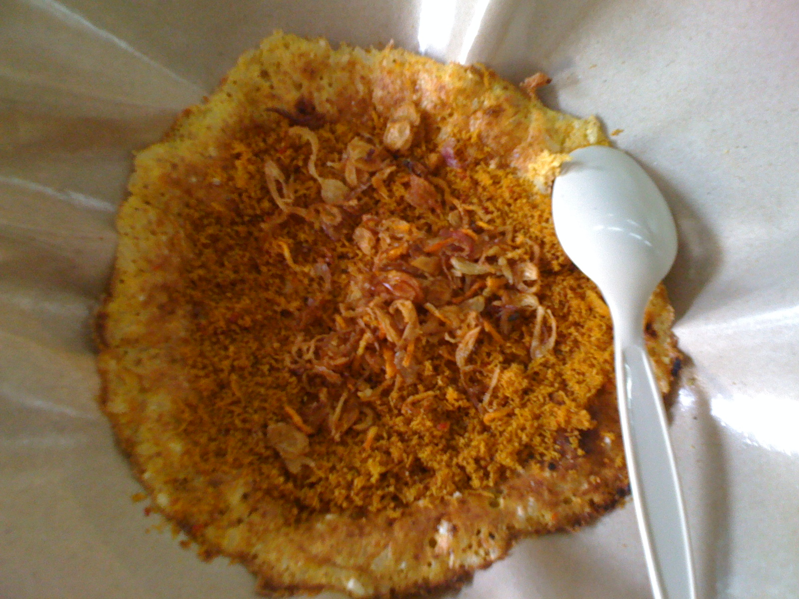 kerak telor oct 01 2010